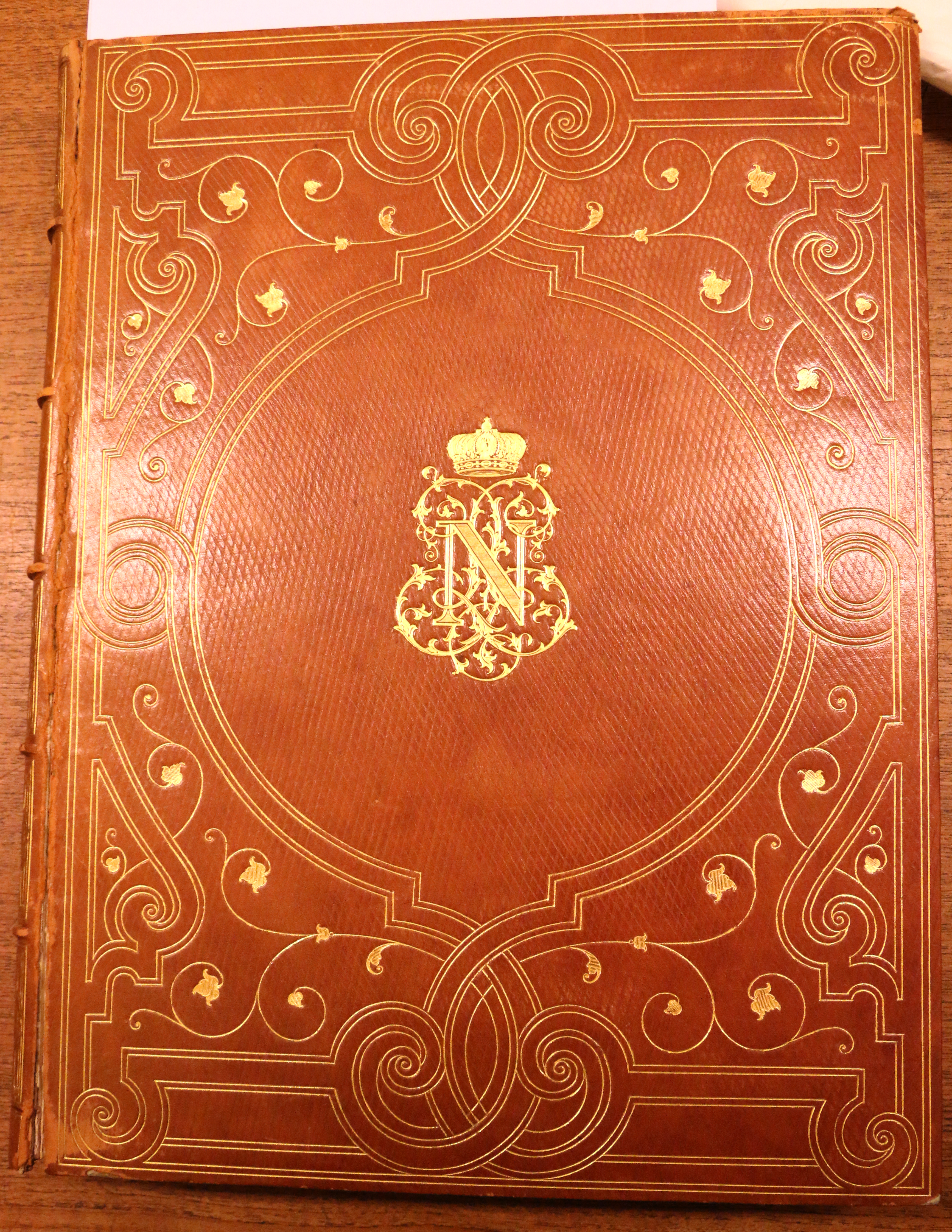 From the National Archaeological Museum of Saint-Germain-en-Laye near Paris France - Cover of the first edition of the life of Julius Caesar written by the emperor Napoleon III.